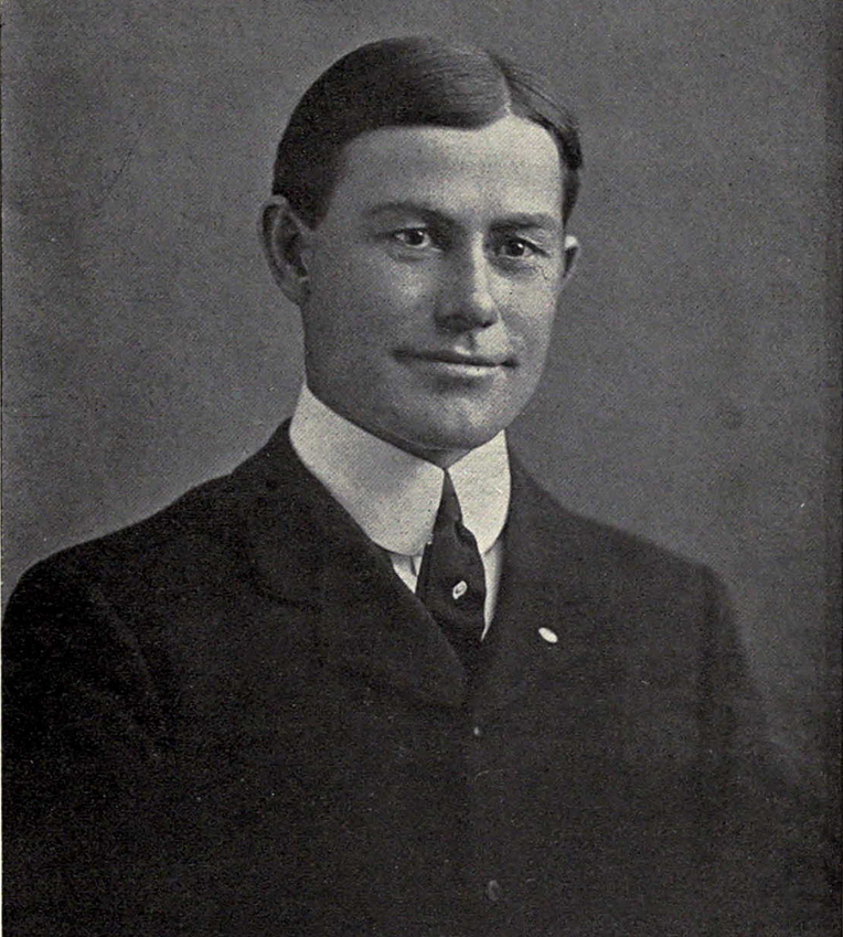 Photograph of Fielding H. Yost